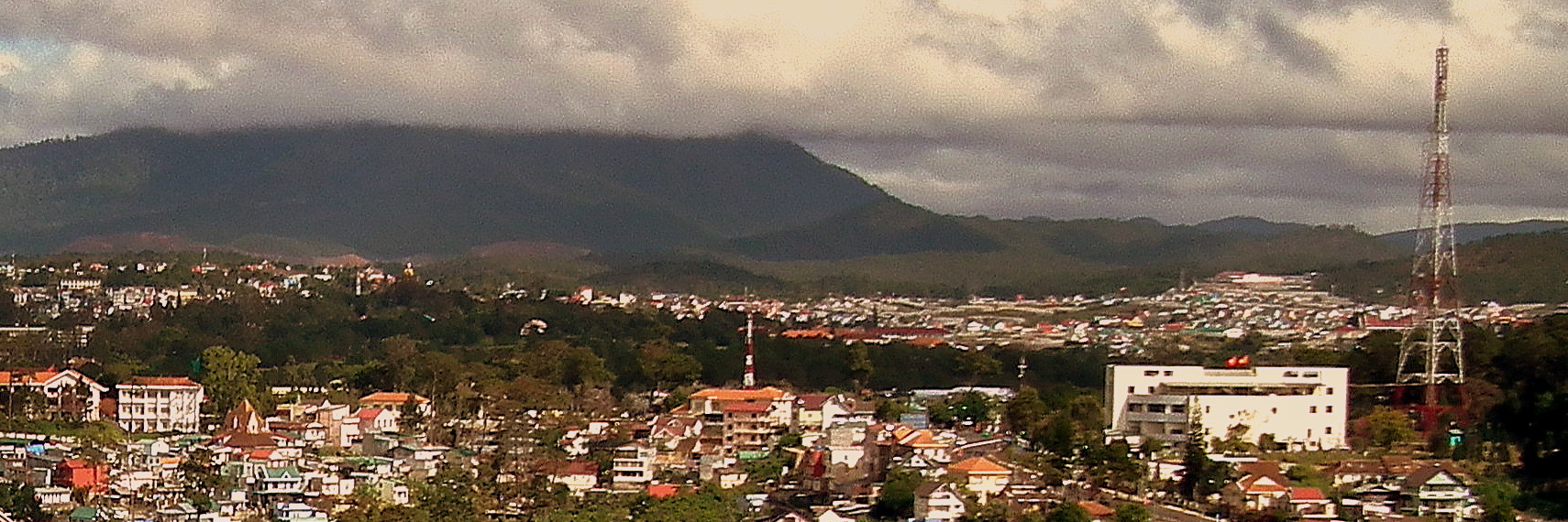 cropped from File:DA_LAT_VIETNAM_JAN_2012_(6864583156).jpg